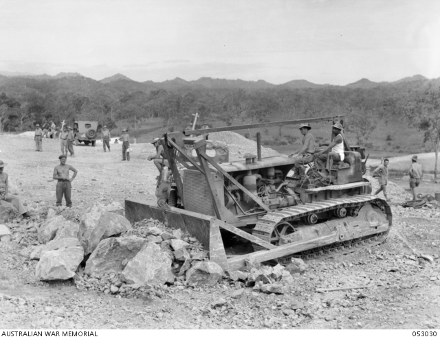 Port Moresby, New Guinea. 1943-06-26. Nine Mile Quarry was worked by native labour until 1942-02, when it was taken over by the military forces. It was then worked for periods of about six months by each of the following units:- 1st Australian Army Troops, Royal Australian Engineers; 91st And 96th United States Engineers; 2/1st Australian Pioneer Battalion; and finally by the 5th Australian Employment Company with a few engineers from the 2/1st Australian Mechanical Engineering Company. United States Army bulldozer, with an American Negro driver at the controls clears up loose rock in the quarry. Also Shown Are:- W237756 Sergeant A. Vincent, 5th Australian Employment Company; VX66358 Captain J.B. Harvey, 2/1st Australian Mechanical Engineering Company; W242894 Captain J.M. Maclennan. Mc., 5th Australian Employment Company; And W157 Lieutenant R.N.C. Towell, 5th Australian Employment Company.